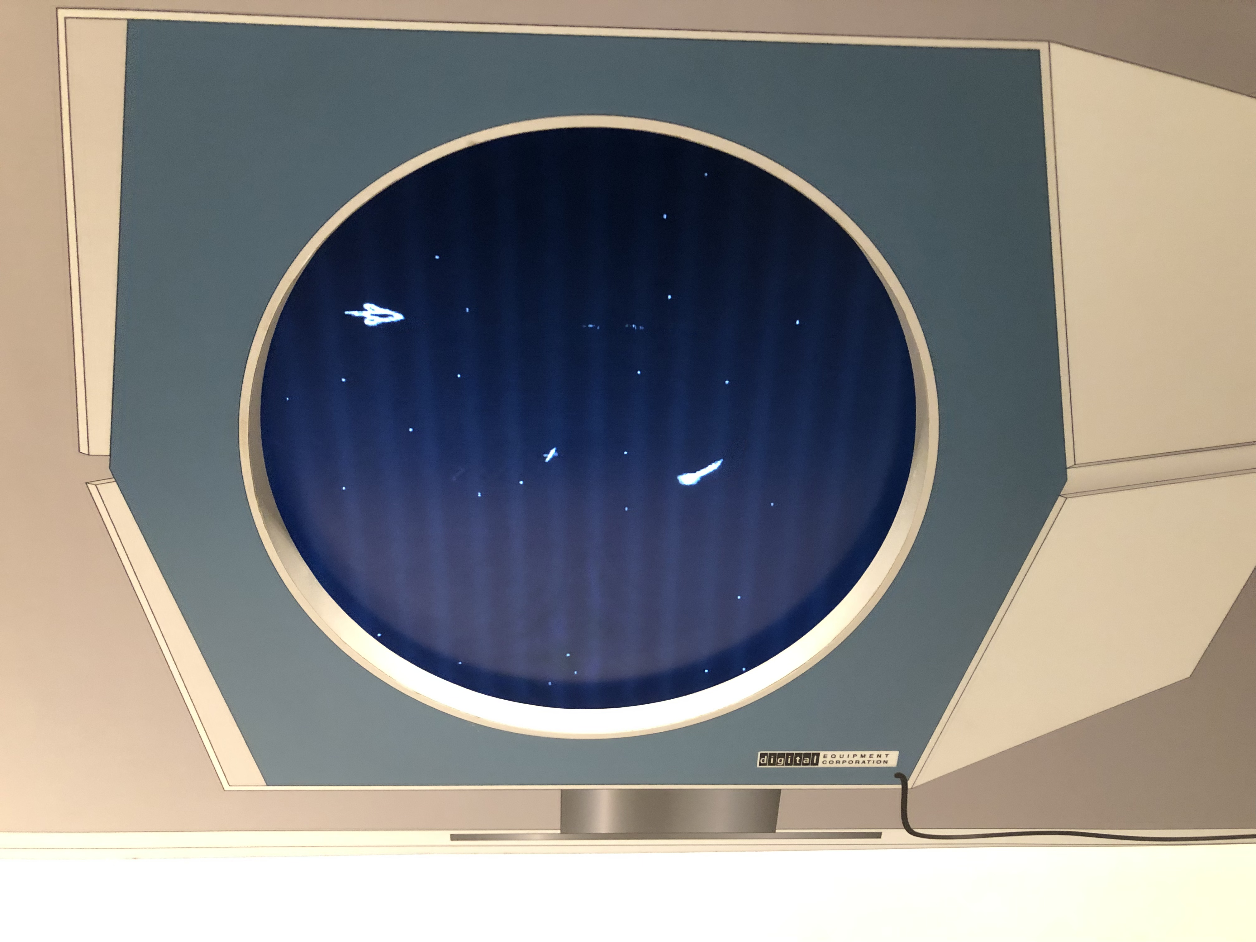 Gameplay demo of Spacewar! game in Computerspielemuseum Berlin